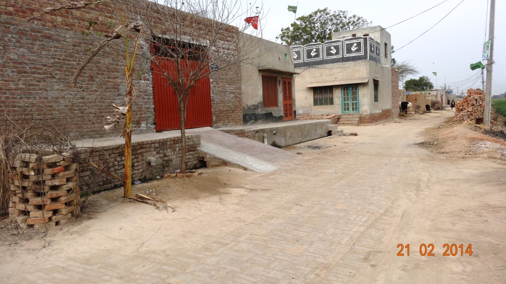 My taken